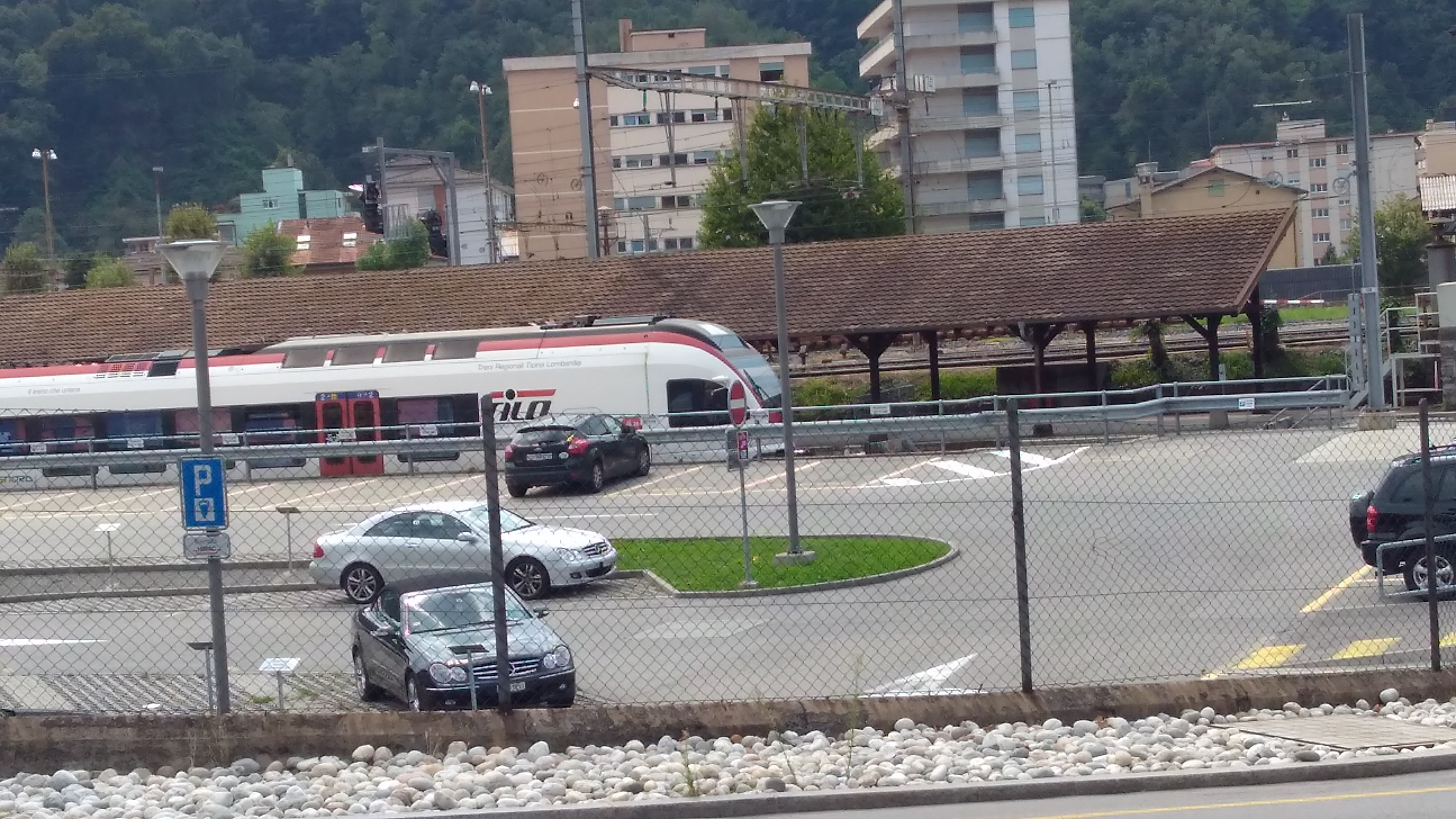 TiLo Train at the Chiasso's Station